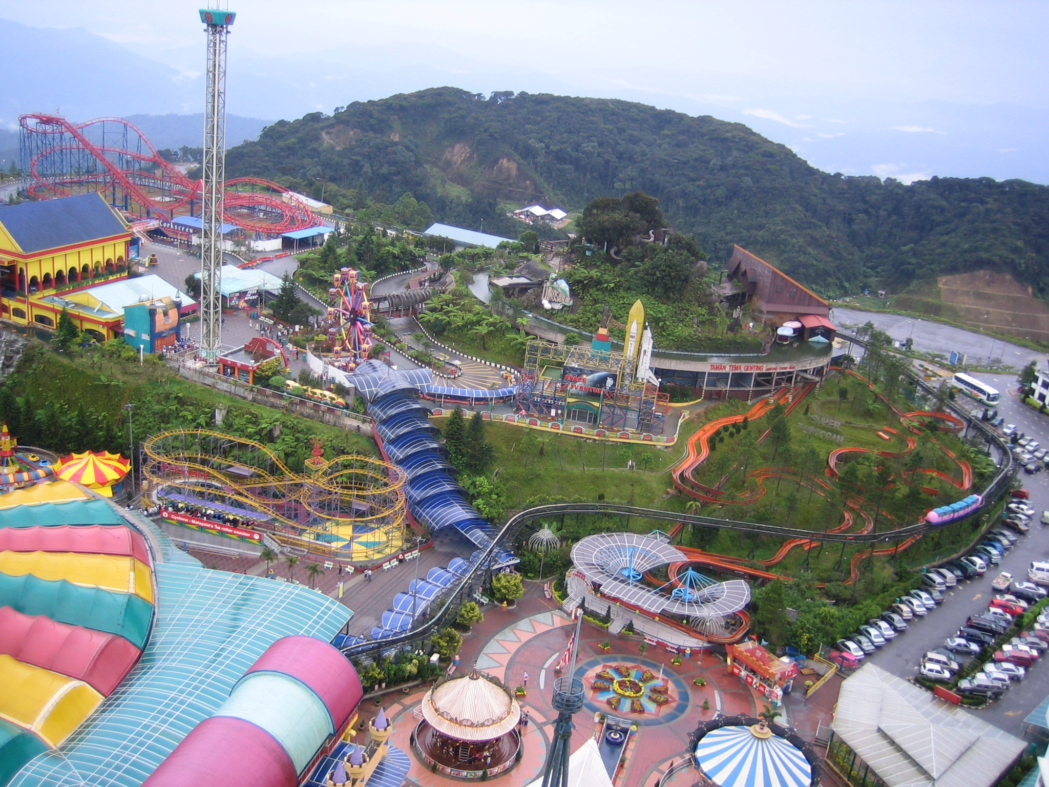 View of Genting Highlands outdoor theme park